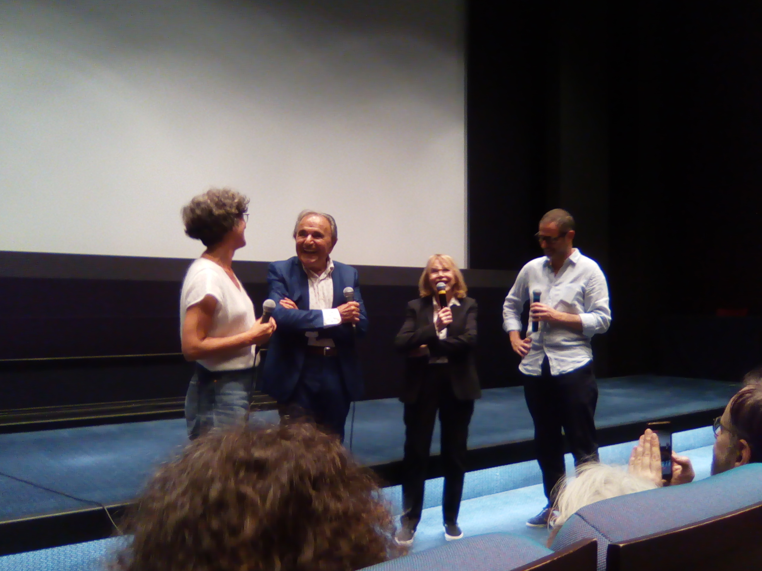 Actors Jean-Pierre Kalfon and Bulle Ogier at a screening of the film "L'Amour fou" at the Cinémathèque française.